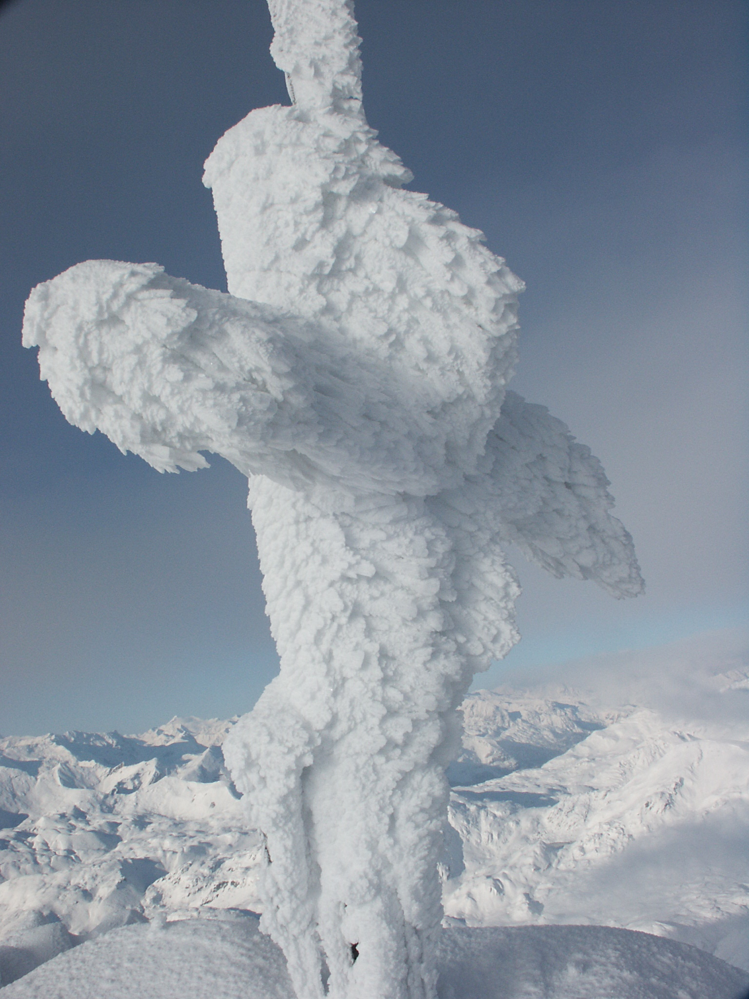 Steirische Kalkspitze, Schladminger Tauern, Austria, Styria